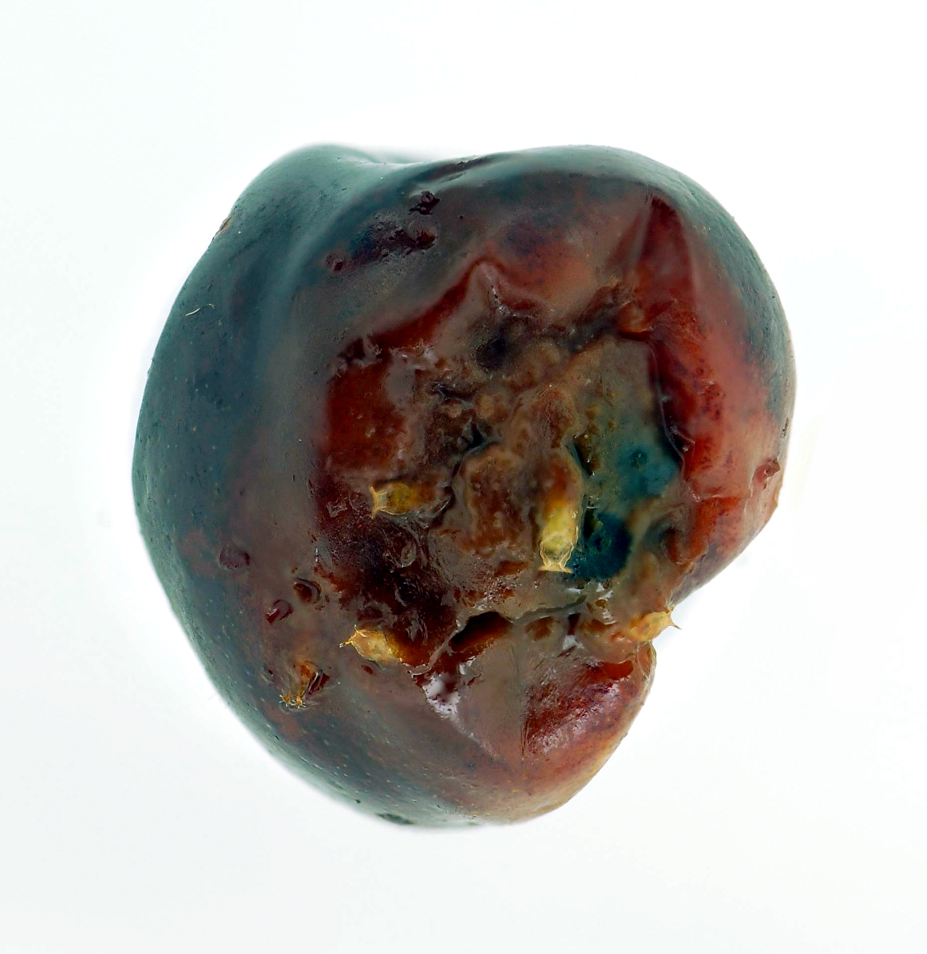 Puppen von Drosophila suzukii auf einer Kirschfrucht- California